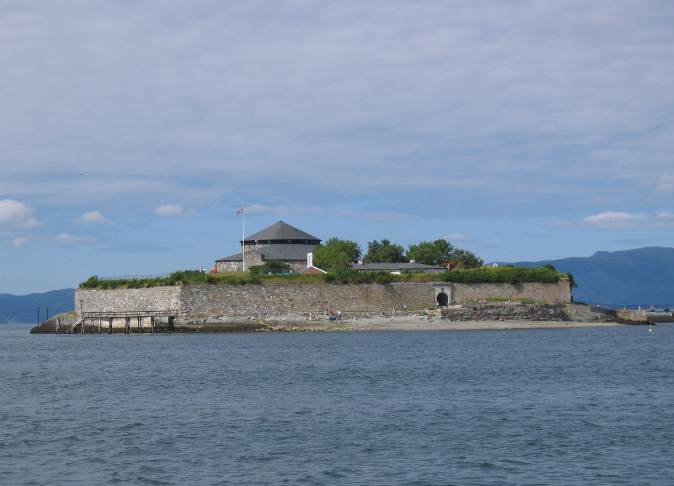 Munkholmen near Trondheim, Norway as seen from the south.